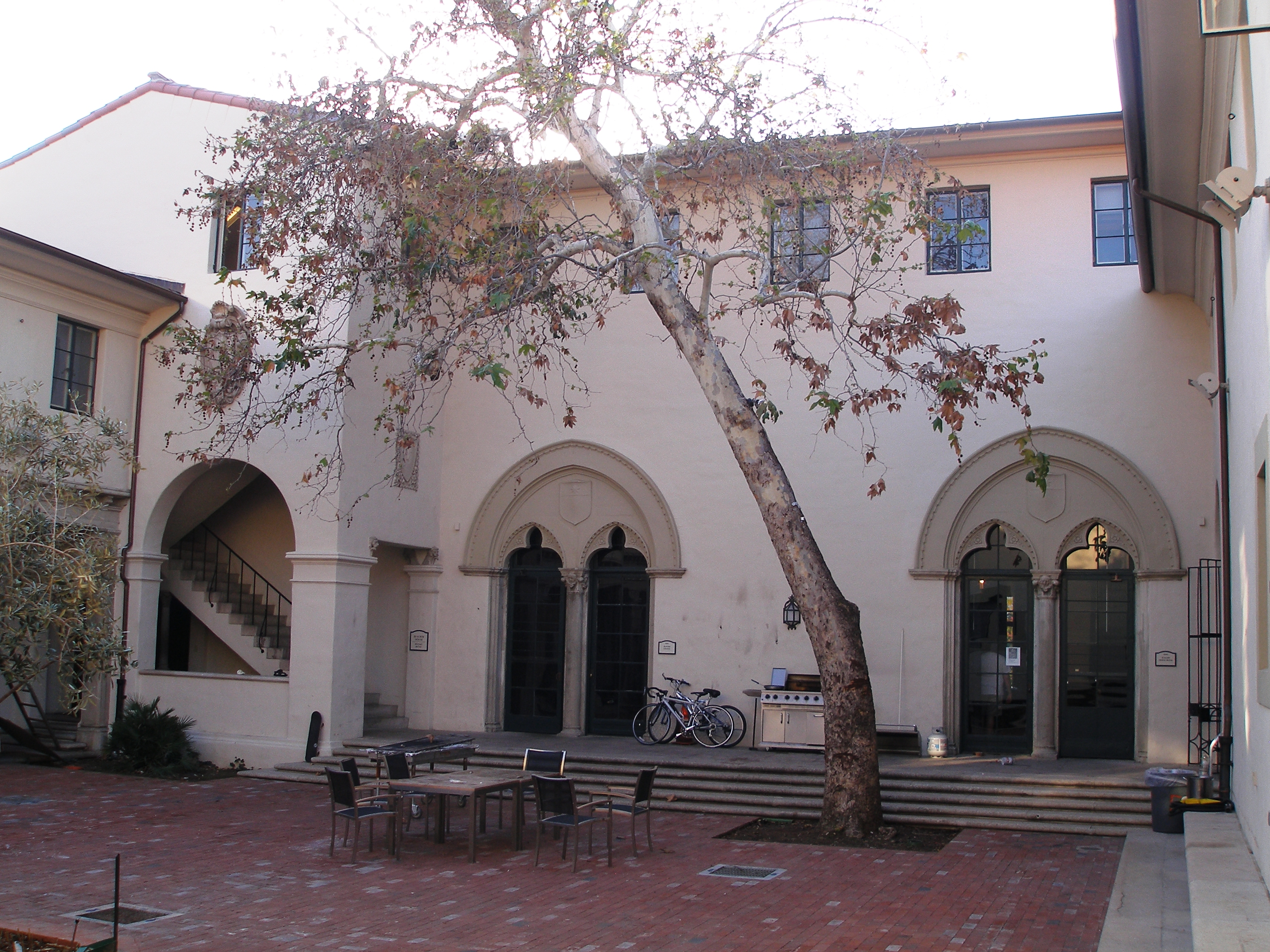 Blacker House courtyard at the California Institute of Technology, in February 2008. The 1928 building, of the South Houses, was designed in the Mediterranean Revival style by architect Gordon Kaufmann.